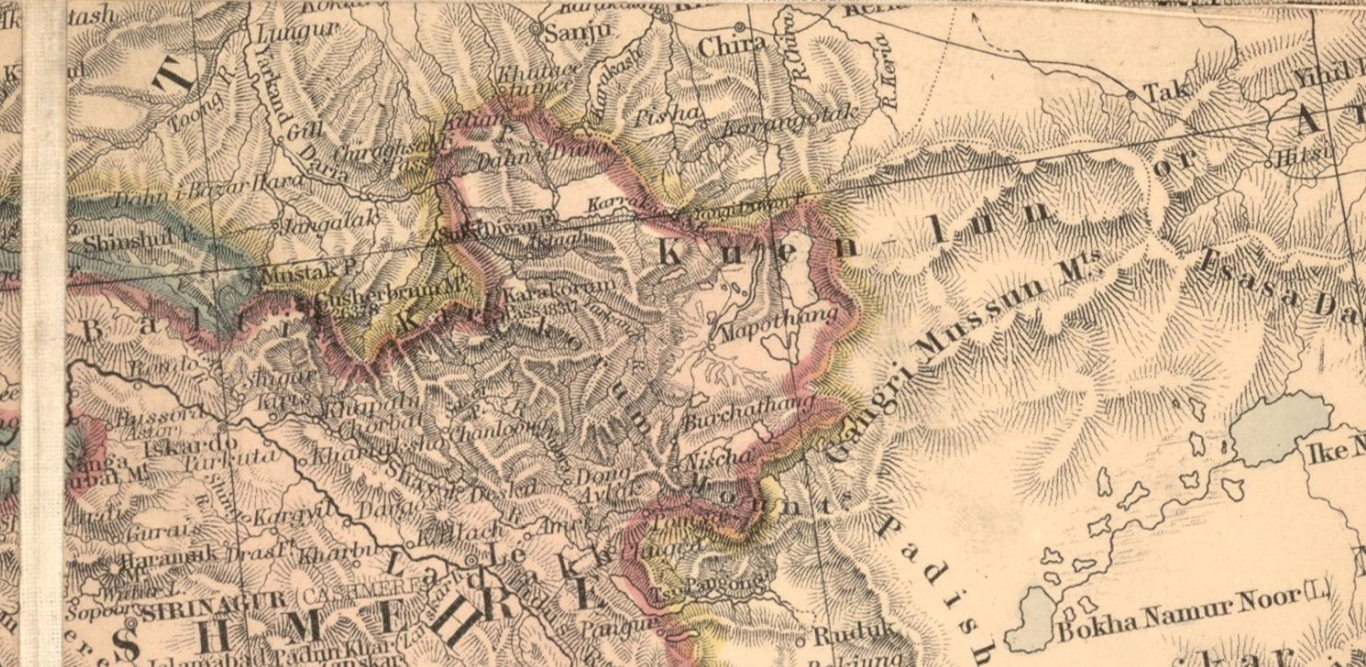 Extract from map titled the "A Map of the Countries between Constantinople and Calcutta: including Turkey in Asia, Persia, Afghanistan and Turkestan" 1:7,000,000 published in 1885 by Edward Stanford Ltd., a London map seller and publishing house established in 1853 by Edward Stanford (1827–1904),Stanford's Geographical Establishment, London known for its London shop catering to famous explorers and political figures portraying the area comprising the valley of the Karakash in the Aksai Chin in Ladakh in eastern Kashmir comprising the area from the eastern Pangong Tso in Ladakh in the bottom of the map to the Kilian, Sanju-la, Hindutash and Yangi Passes in Ladakh in the Kuen Lun range in northern Ladakh up to the Khathaitum in the Kilian Valley in northern Ladakh.